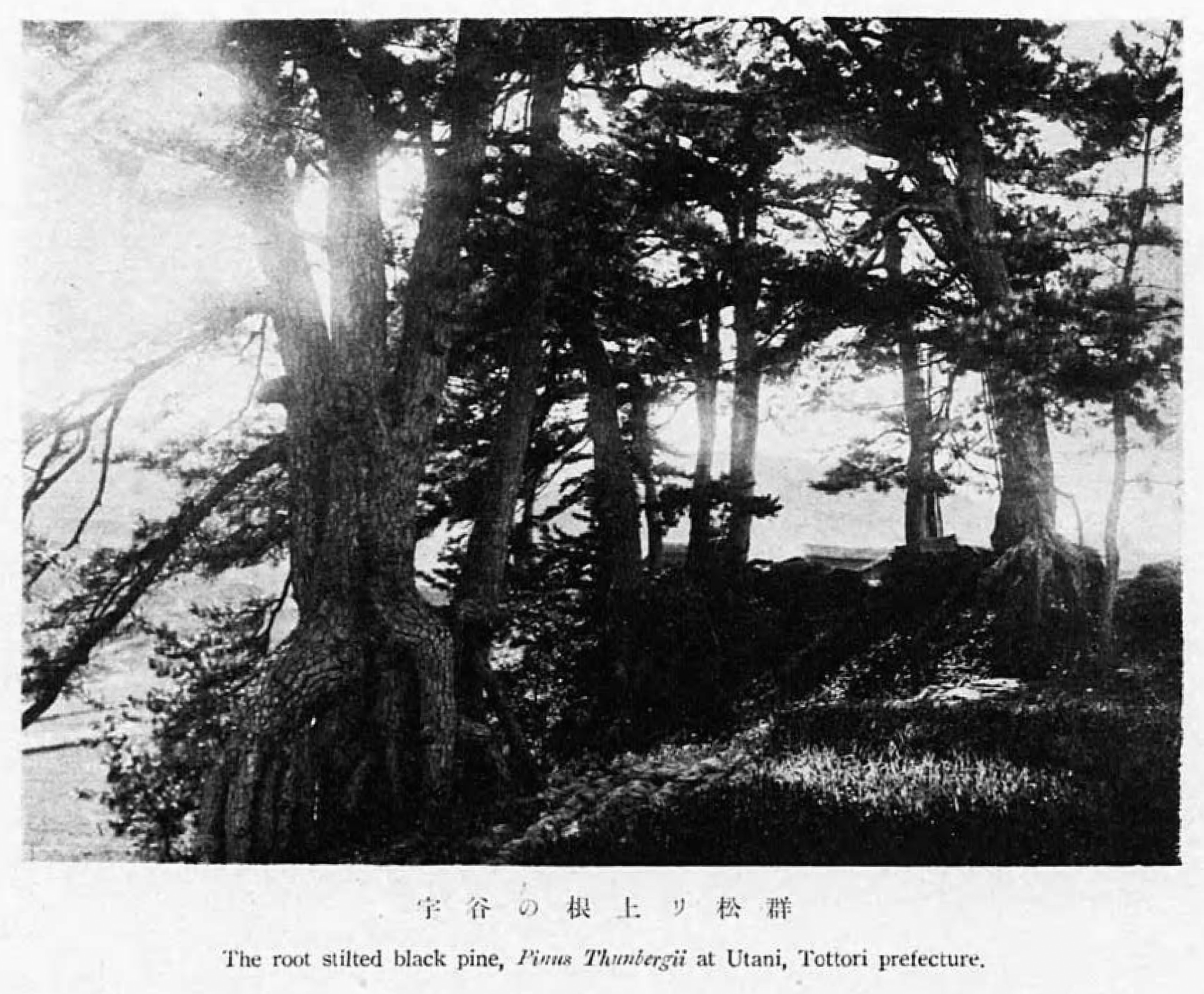 The root stilted black pine (Pinus thunbergii) at Utani, Tottori prefecture, Japan.